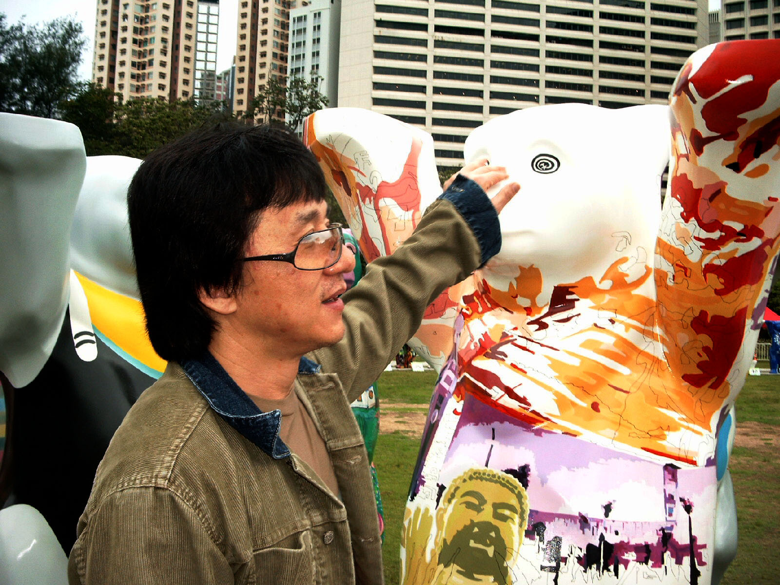 Jackie Chan + United Buddy Bears in Hong Kong 2004